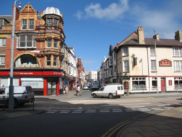 Terrace Road Looking down Terrace Road from just in front of the Railway Station